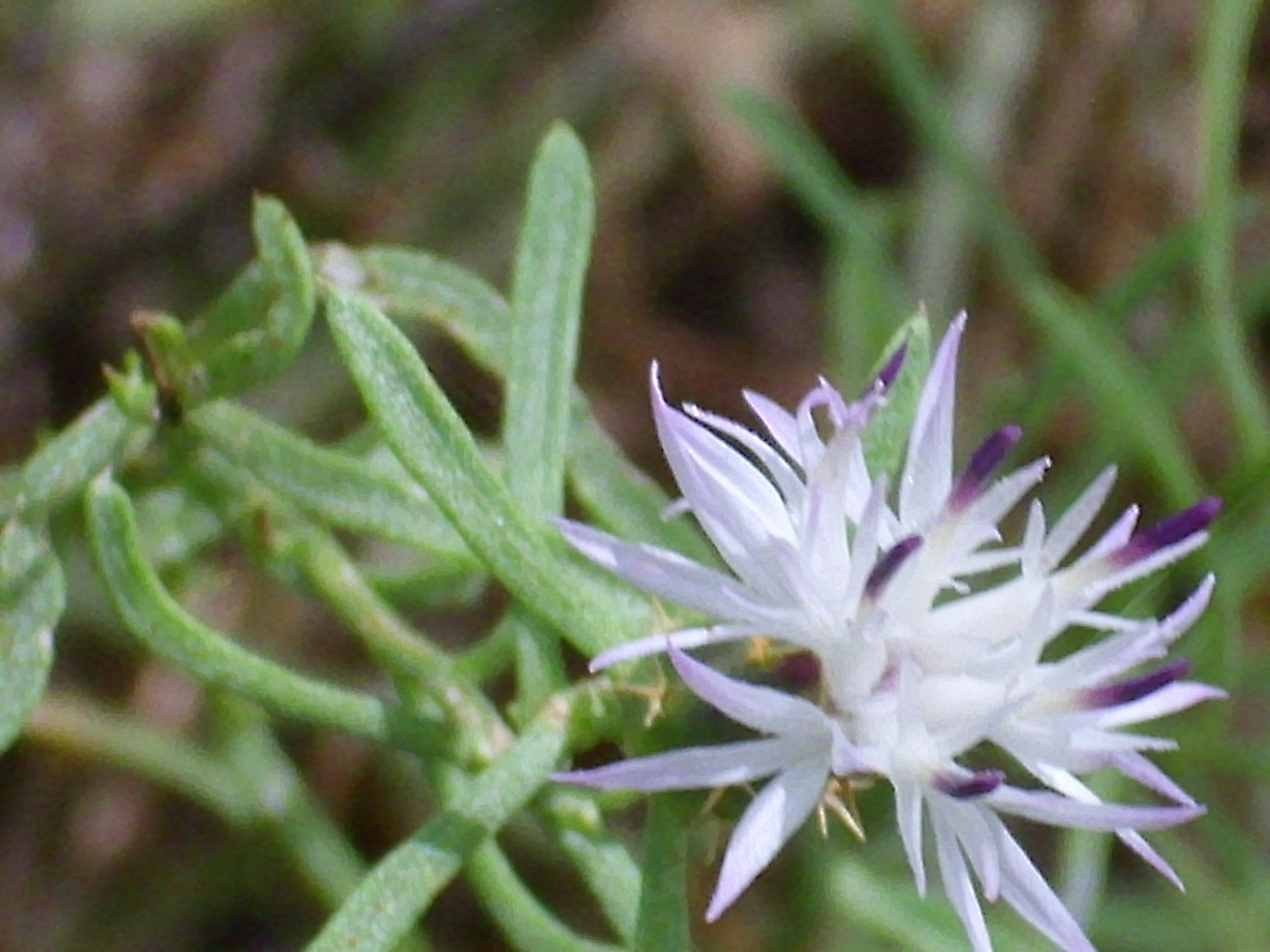 Centaurea aspera close up, La Mata, Torrevieja, Alicante, Spain.